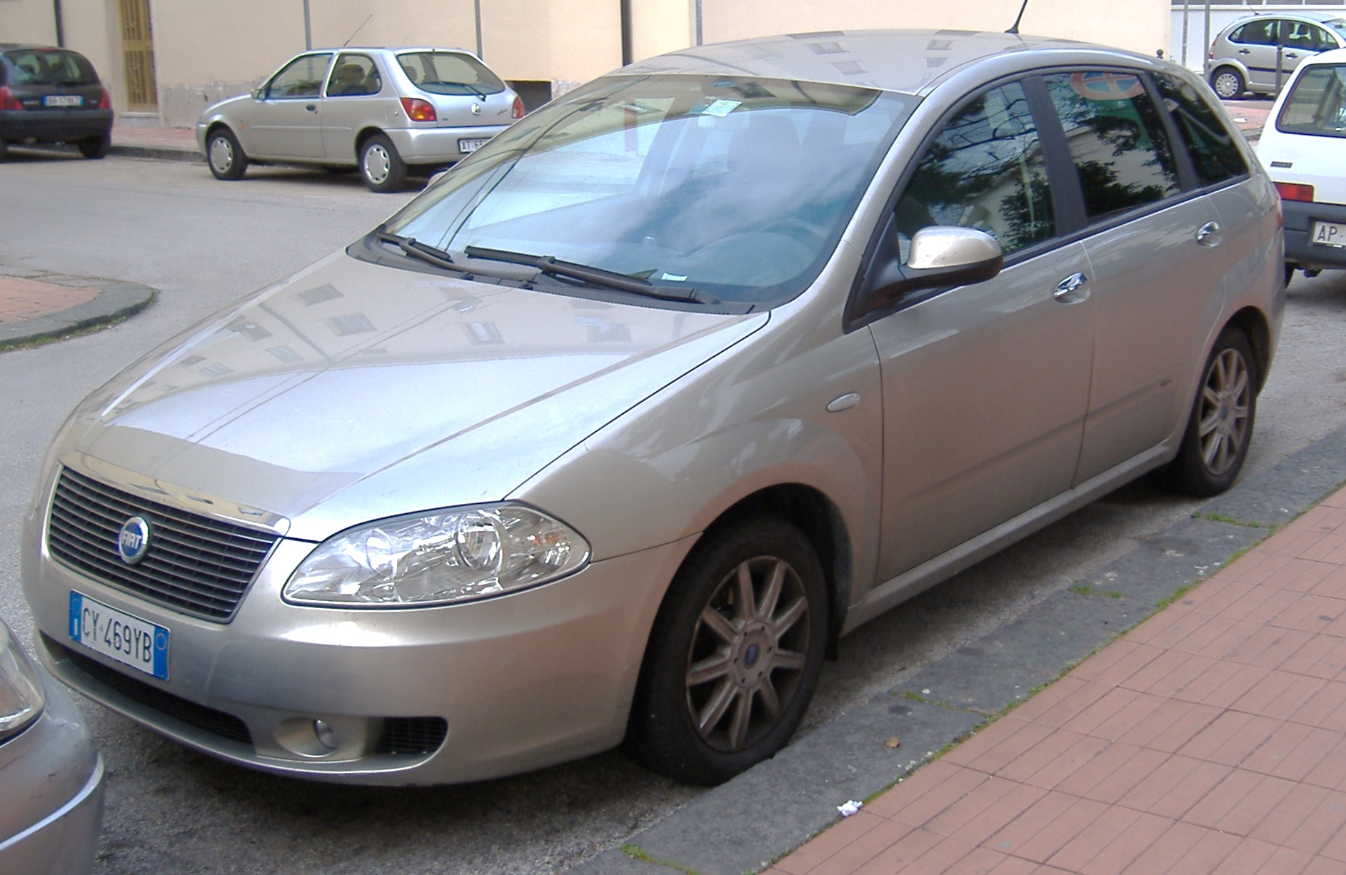 Fiat Croma